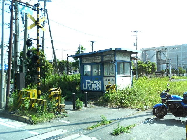 Former building of Shinko Station in Tsurumi-ku, Yokohama, Kanagawa, Japan. This building has been removed